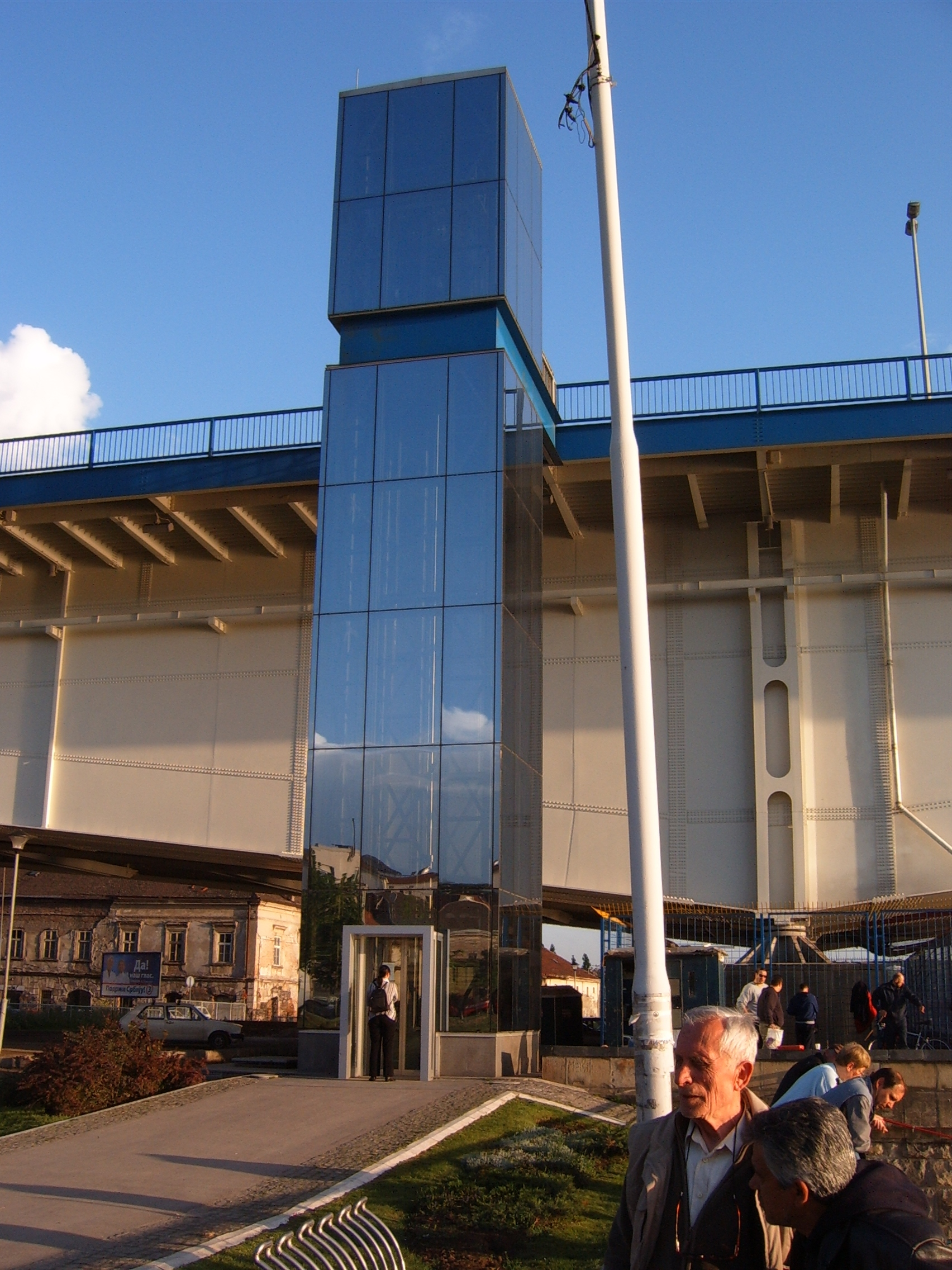 Bike elevator at Branko bridge in Belgrade Serbia